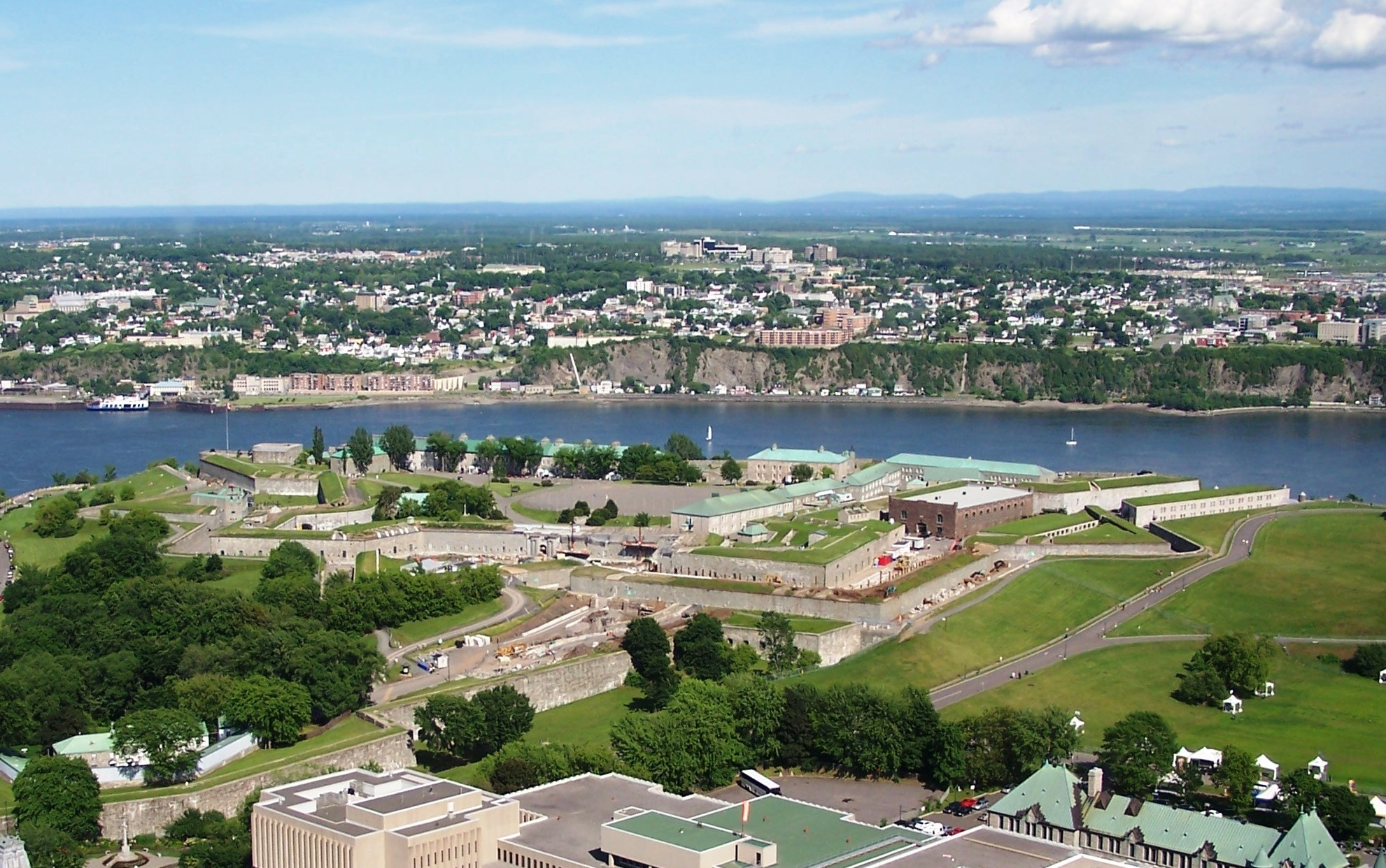 Cropped version of File:Observ6.jpg